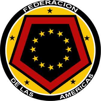 Seal of the Federation of the Americas